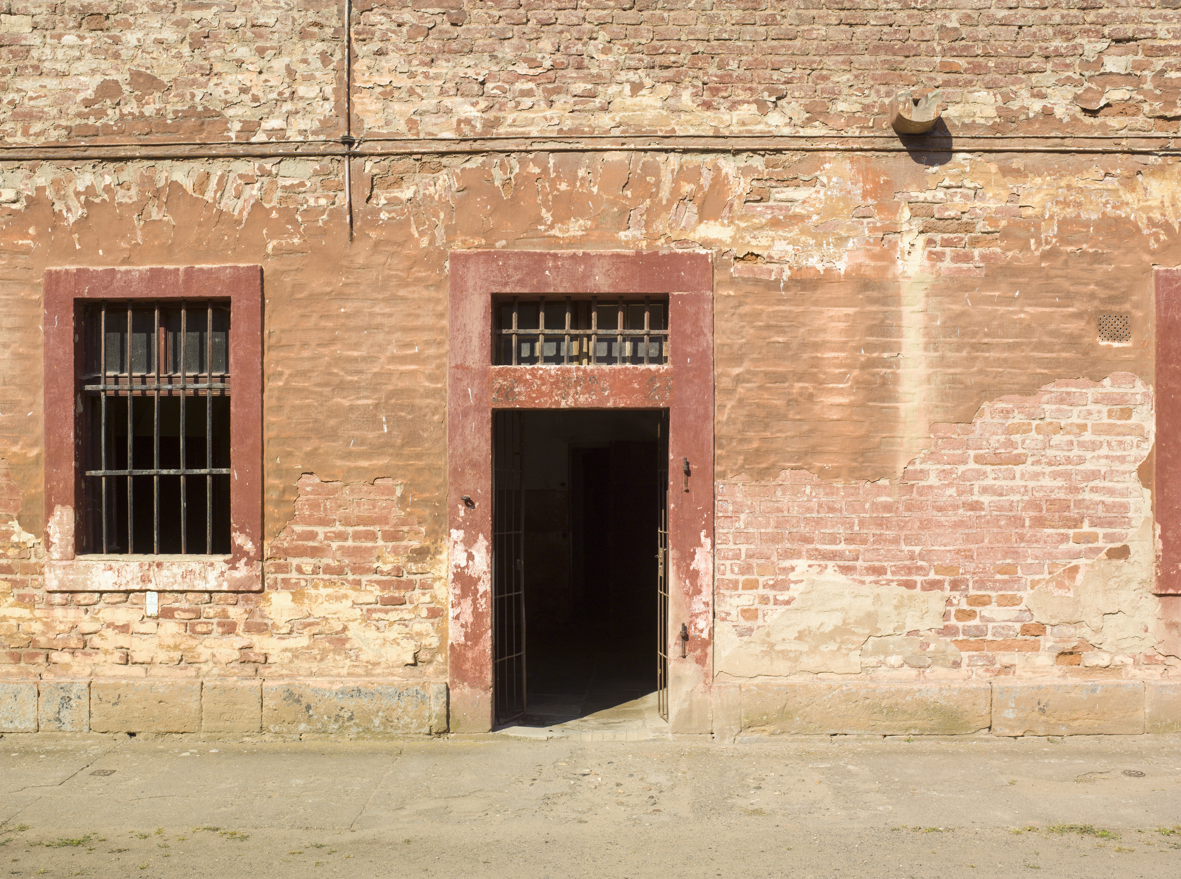 Theresienstadt concentration camp entrance to cells 27 and 28.